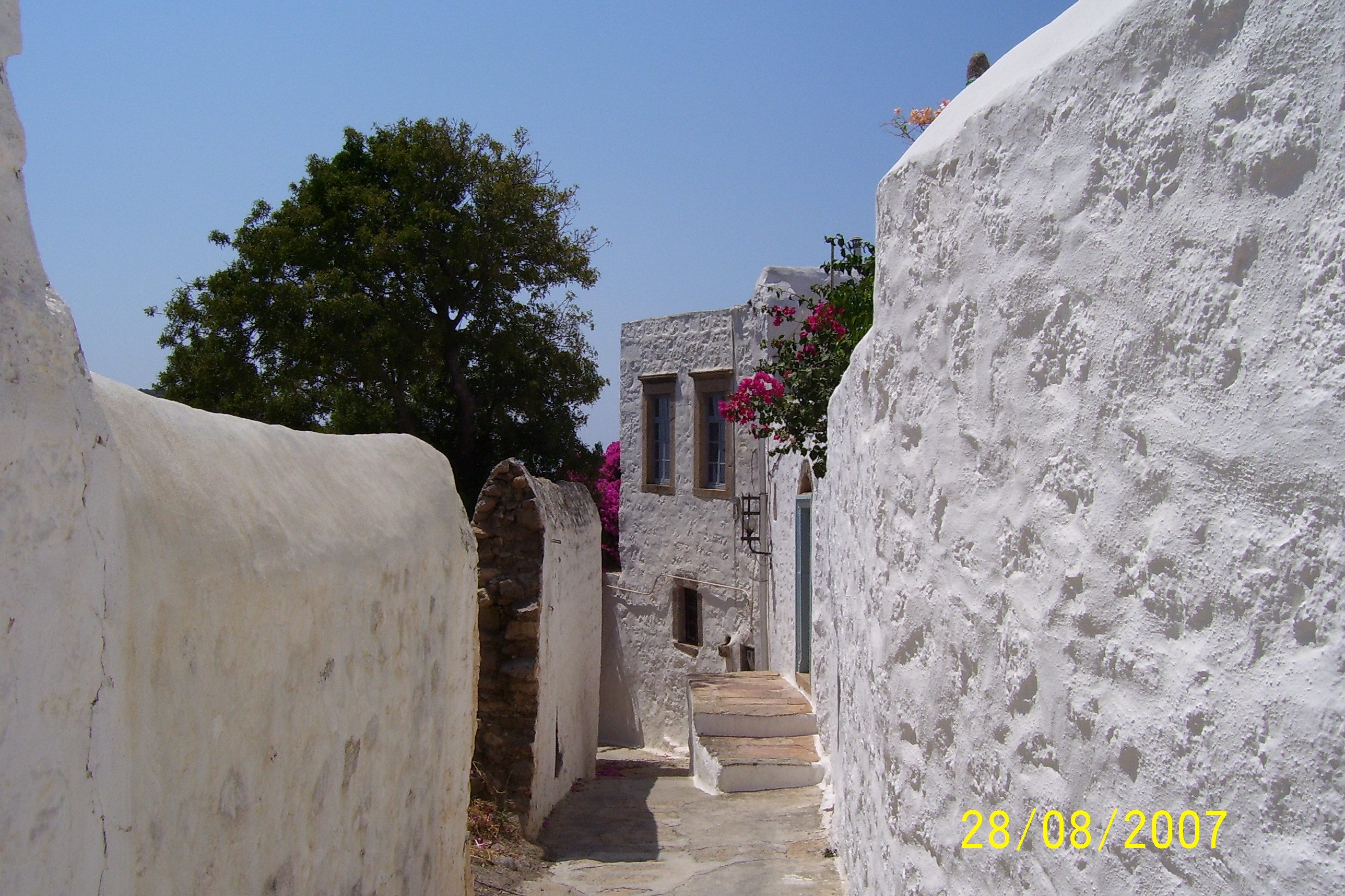 a street in CHora in Patmos